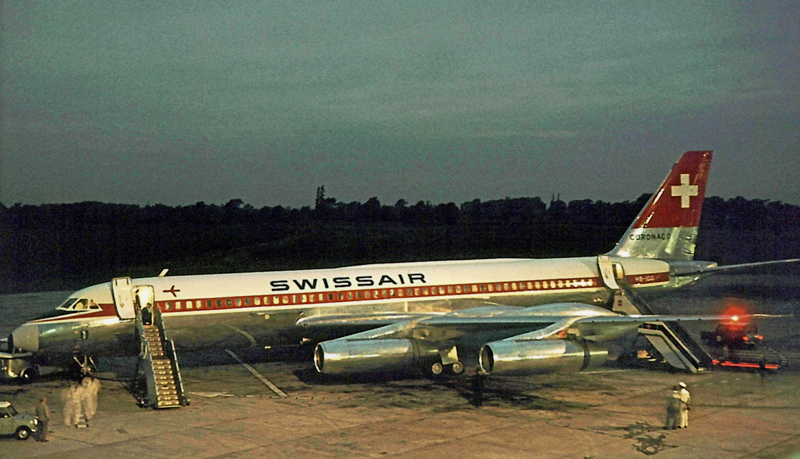 Convair 990A Coronado HB-ICC at Manchester Airport in 1964 operating a scheduled service to Zurich via Basel